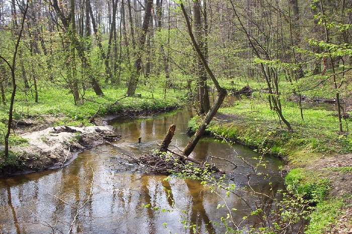 Pisia river in forest near Radziejowice (Poland, Mazovia).